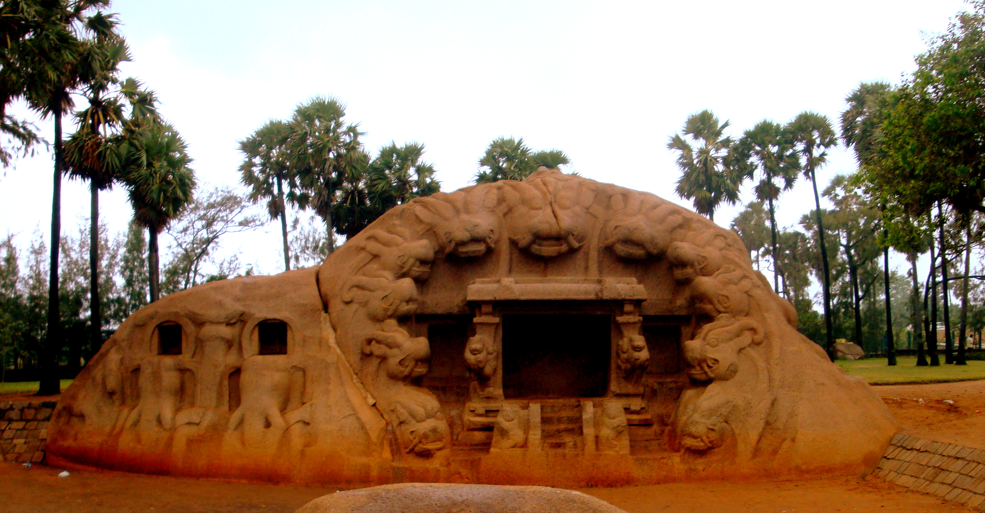 It depicts the ferociousness and the royal power of the Tiger